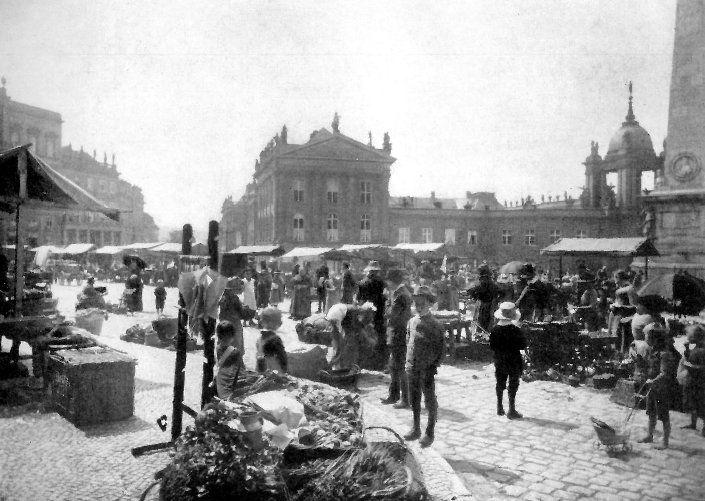 The old market in Potsdam, Germany in 1900